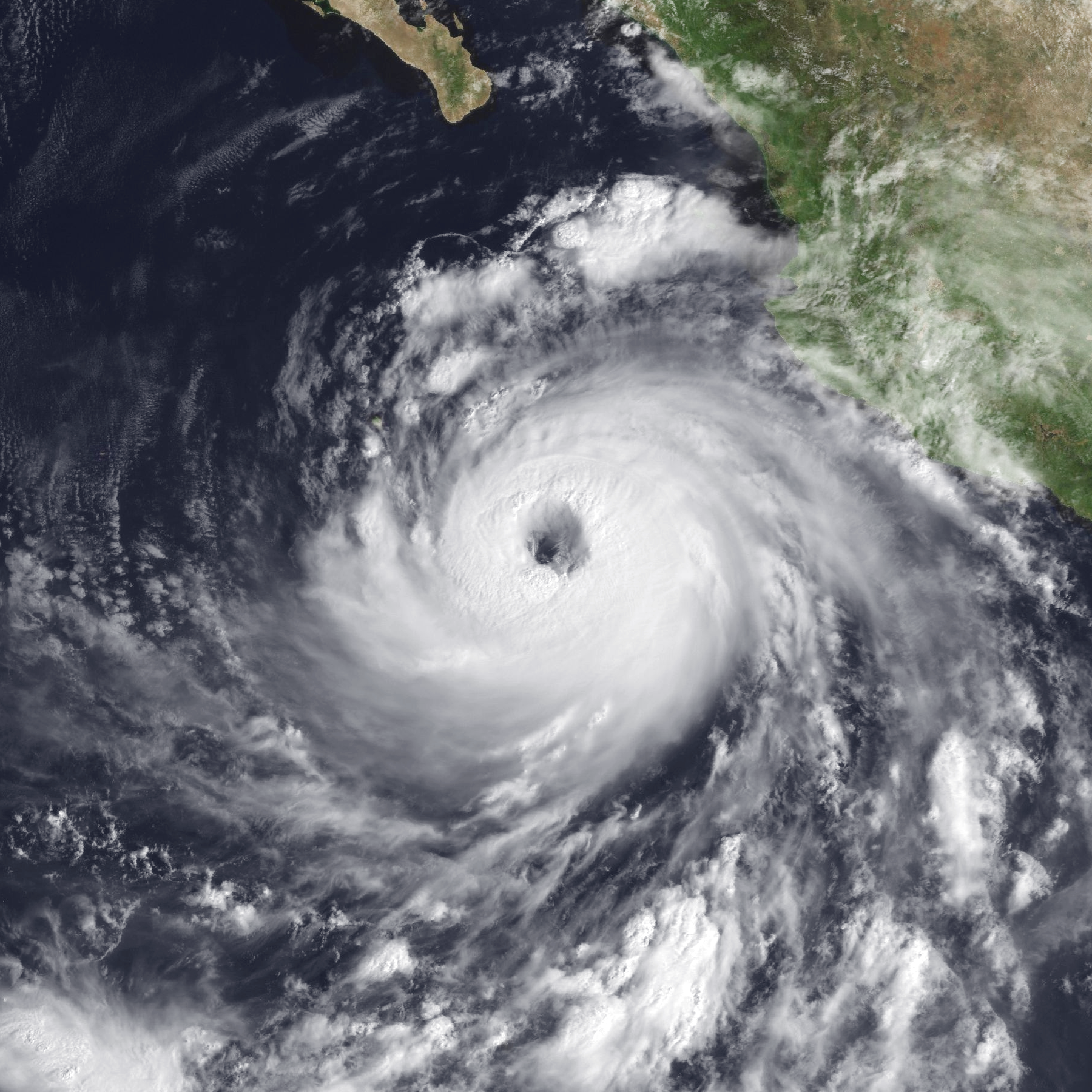 Hurricane Nora shortly after peak intensity southwest of Mexico on September 21, 1997